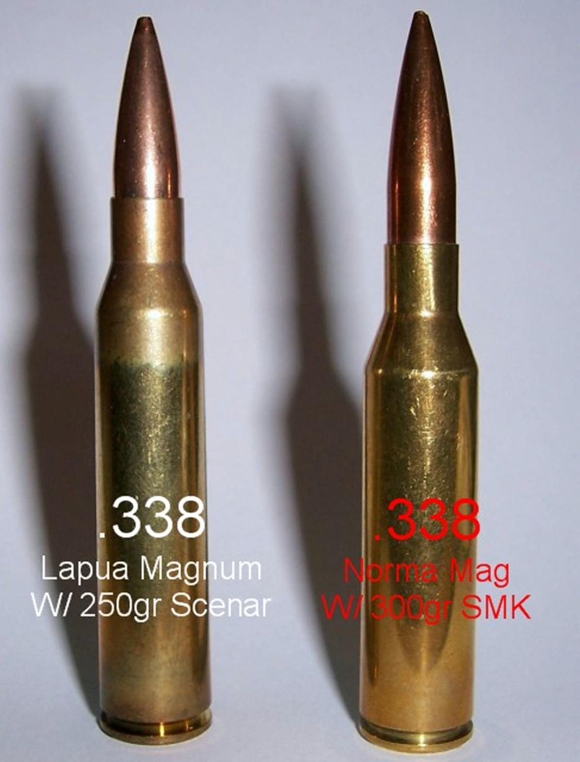 This image is a side by side comparison of the .338 Lapua Magnum cartridge to the .338 Norma Magnum cartridge.